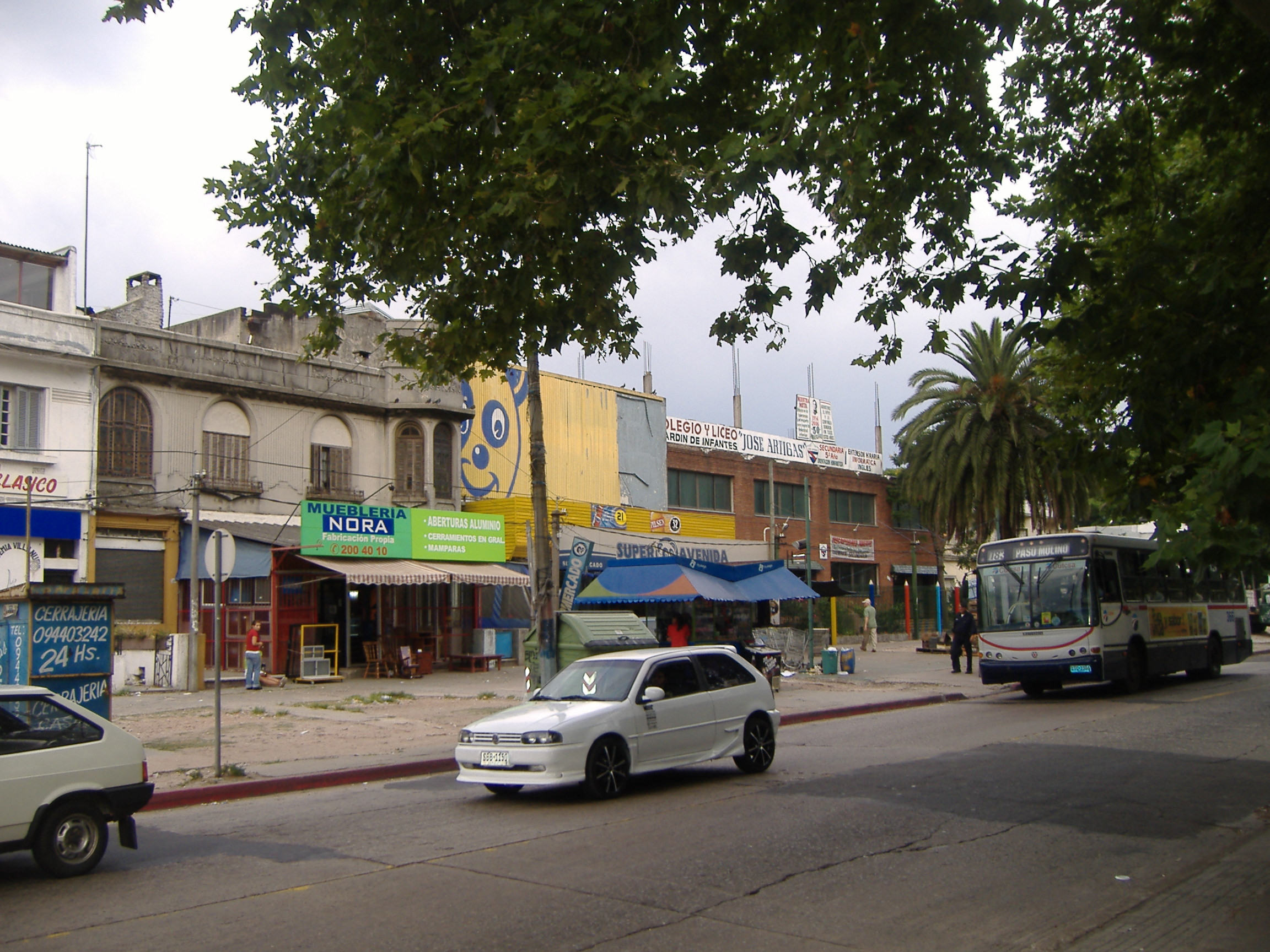 Luis Alberto Herrera Avenue at the Brazo Oriental neighborhood in Montevideo.